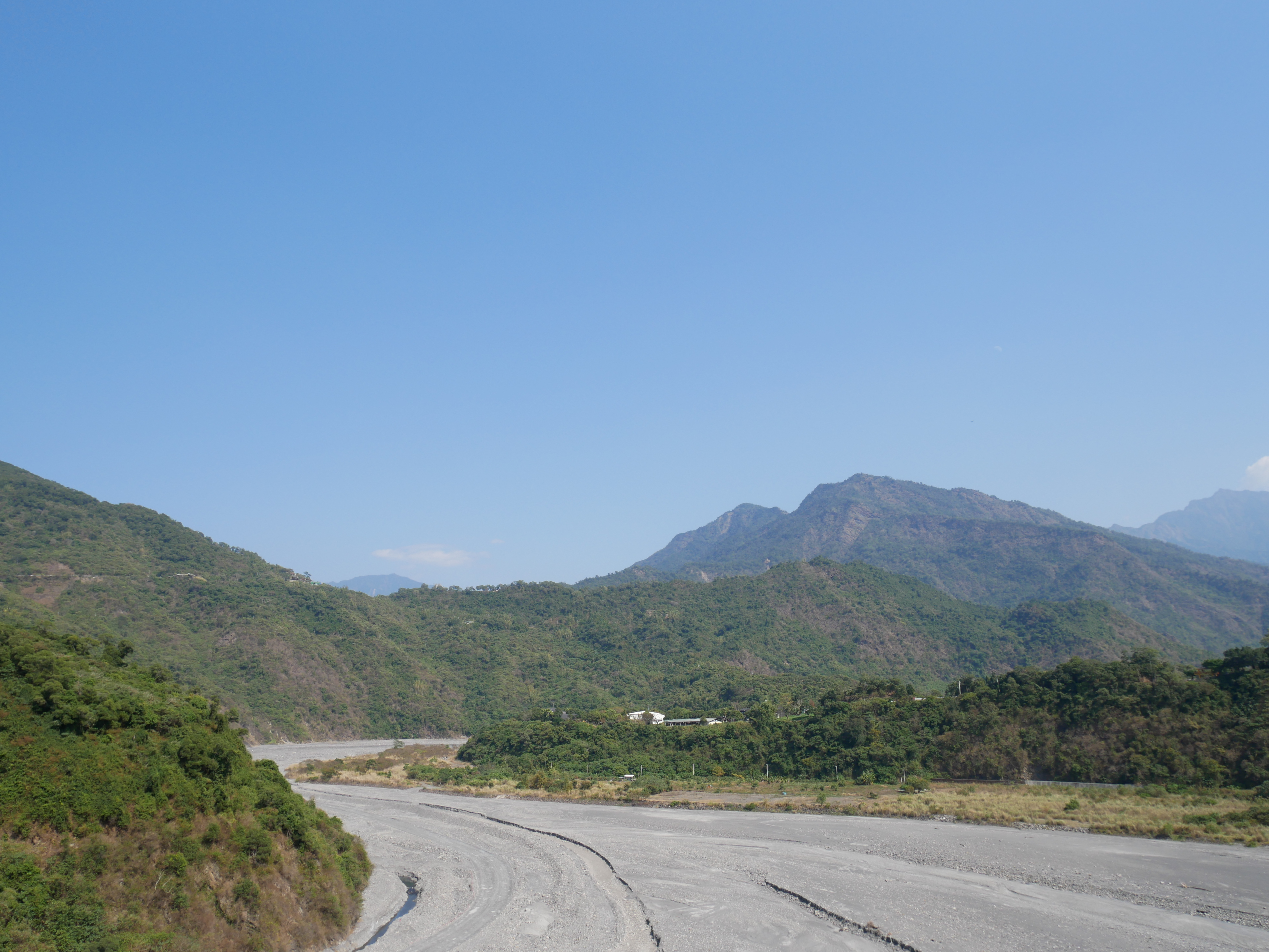 流經三地門社的隘寮溪，屏東縣三地門鄉三地村